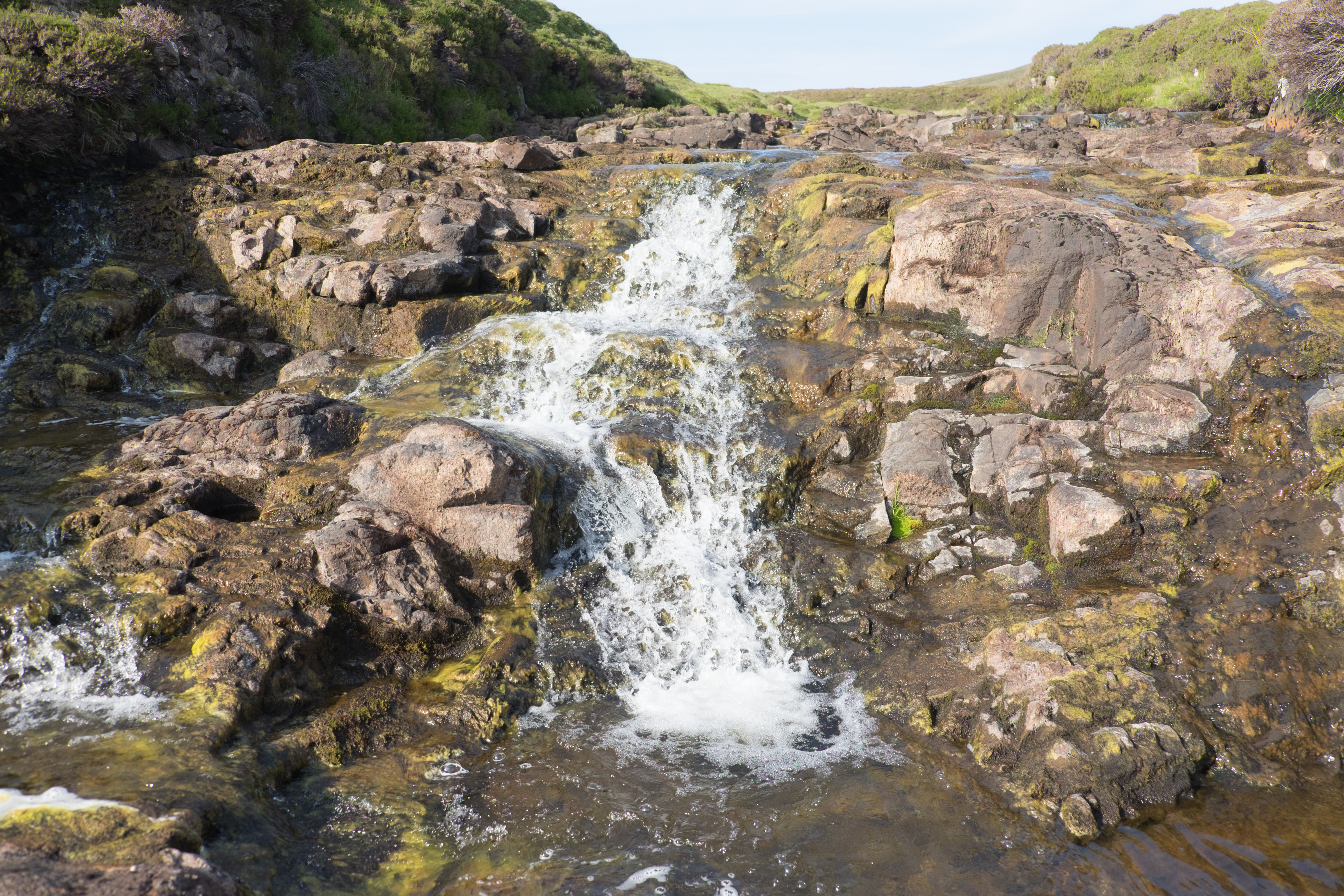 Waterfall on the River Rha, Isle of Skye